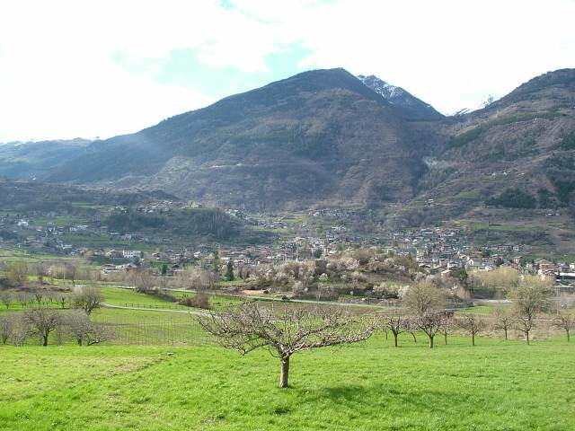 Overview of Jovençan (Aosta Valley, Italy)